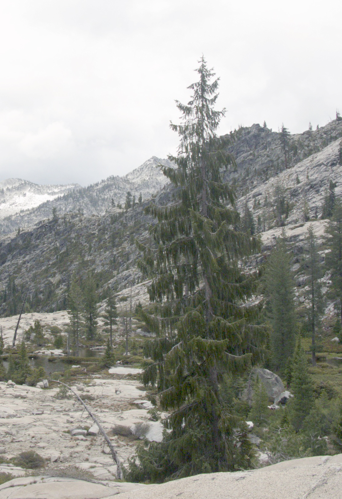 Picea breweriana, Trinity Alps, Klamath Mts., California